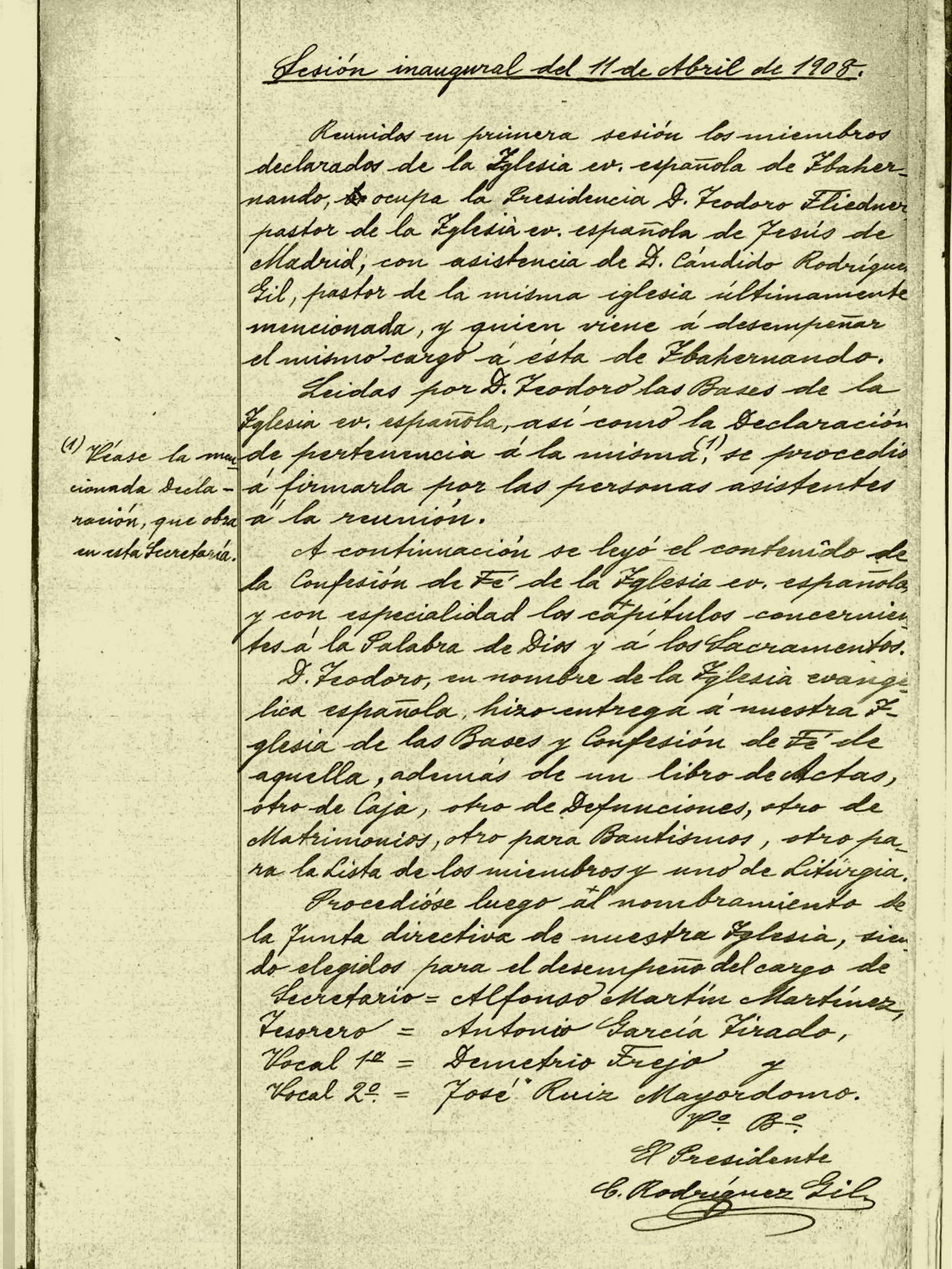 Acta fundacional